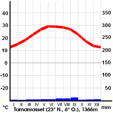 Climate diagram (in German) of Tamanghasset in Algeria created with